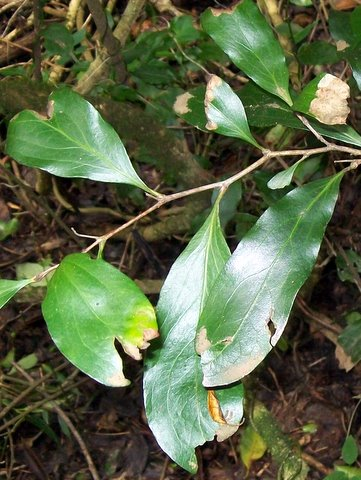 Protea at Robertson Nature Reserve, labeled as Helicia glabriflora. Very veiny under the leaf. Could be juvenile Helicia glabriflora, or Stenocarpus salignus